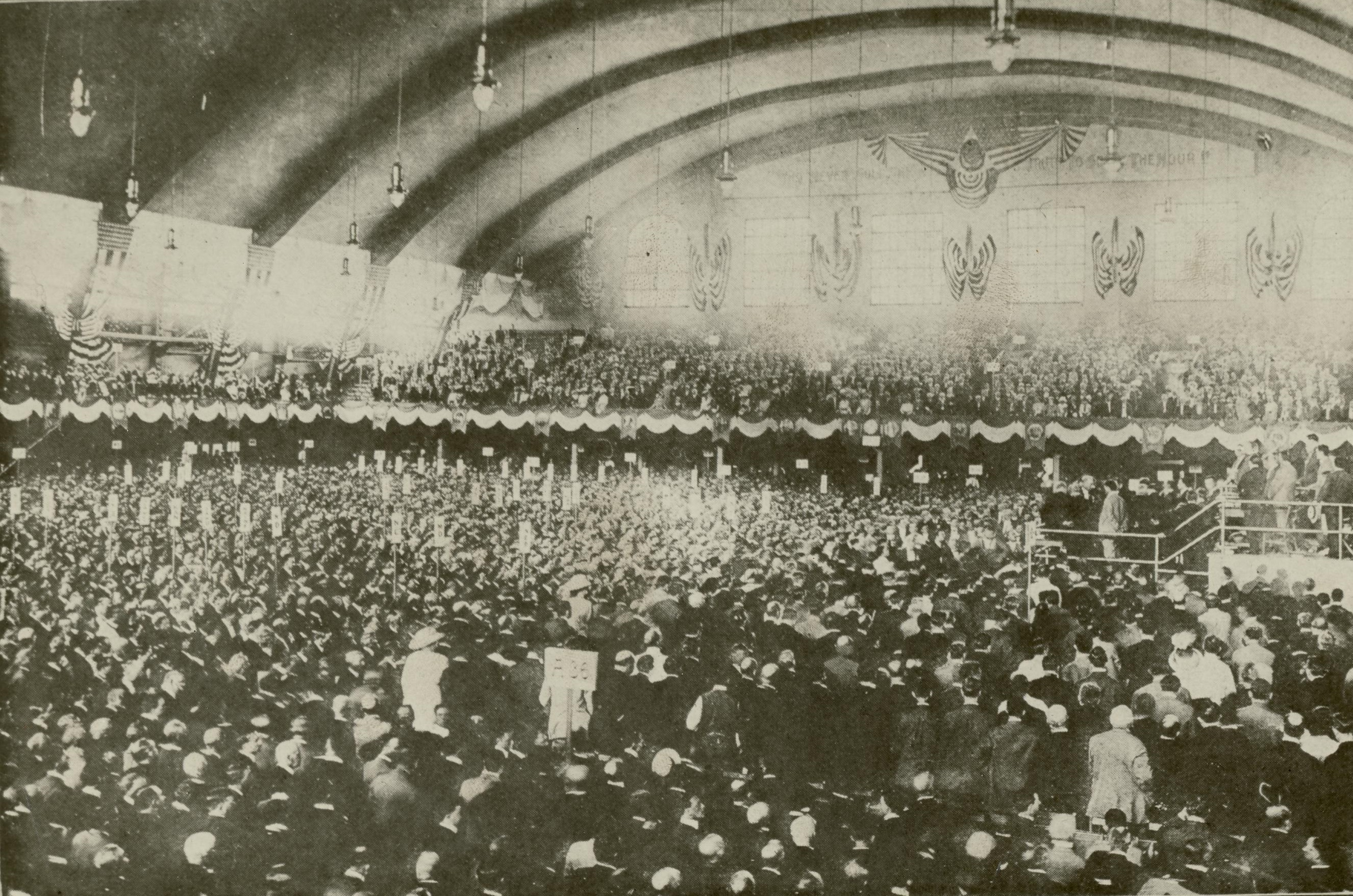 Local Accession Number: 124 Description: Democratic Convention of 1912 in session. Photographer: Brown Bros. Source: Research library, 20th Century Fox Size: 8x10 Medium: Print, Black and White Date: 1912